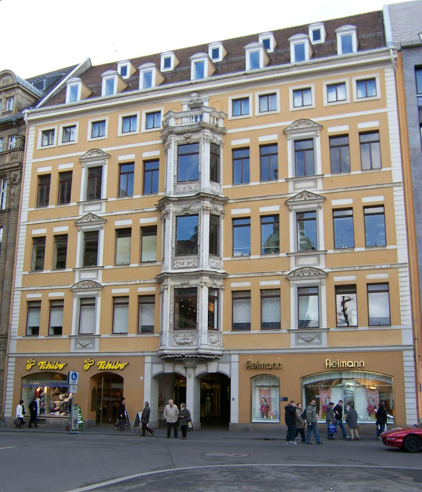 Königshaus ("Kings's House", built in 1706/07), baroque city house in Leipzig, Saxony, Germany.